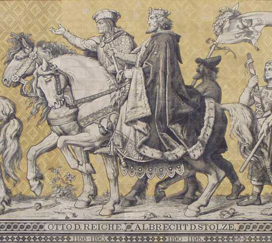 Description: Fürstenzug Dresden Source: own work